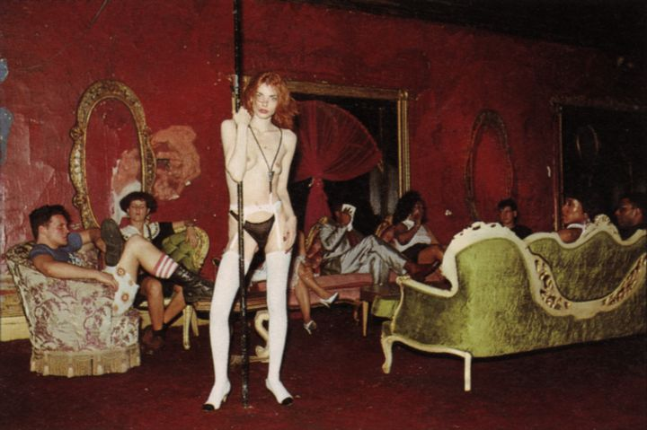 photograph of the interior of the world nightclub in new york's east village